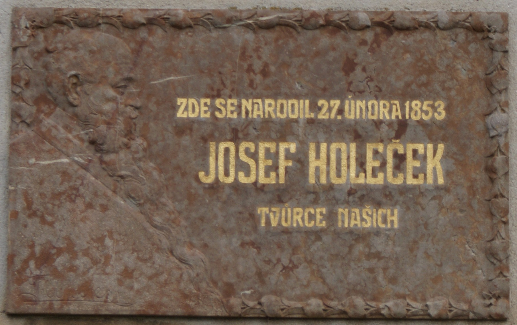 Stožice, a village in Strakonice District, Czech Rep., a memorial plate on the Czech writer Josef Holeček's house.